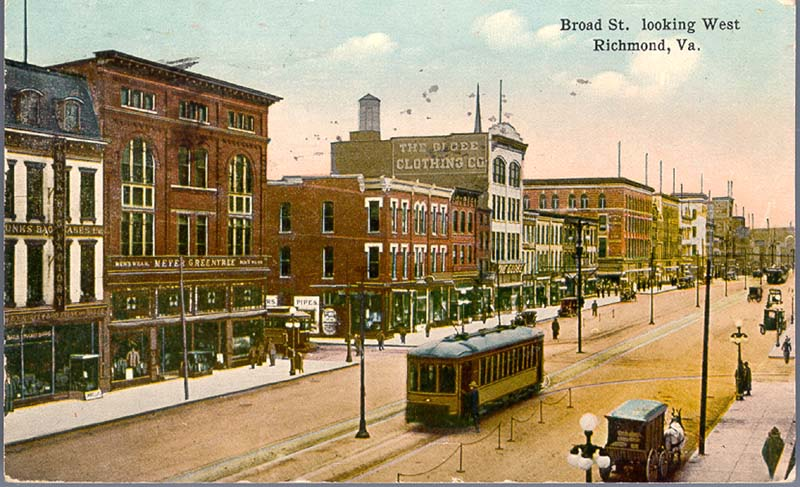 Broad Street commercial district in downtown Richmond, Virginia, ca 1914